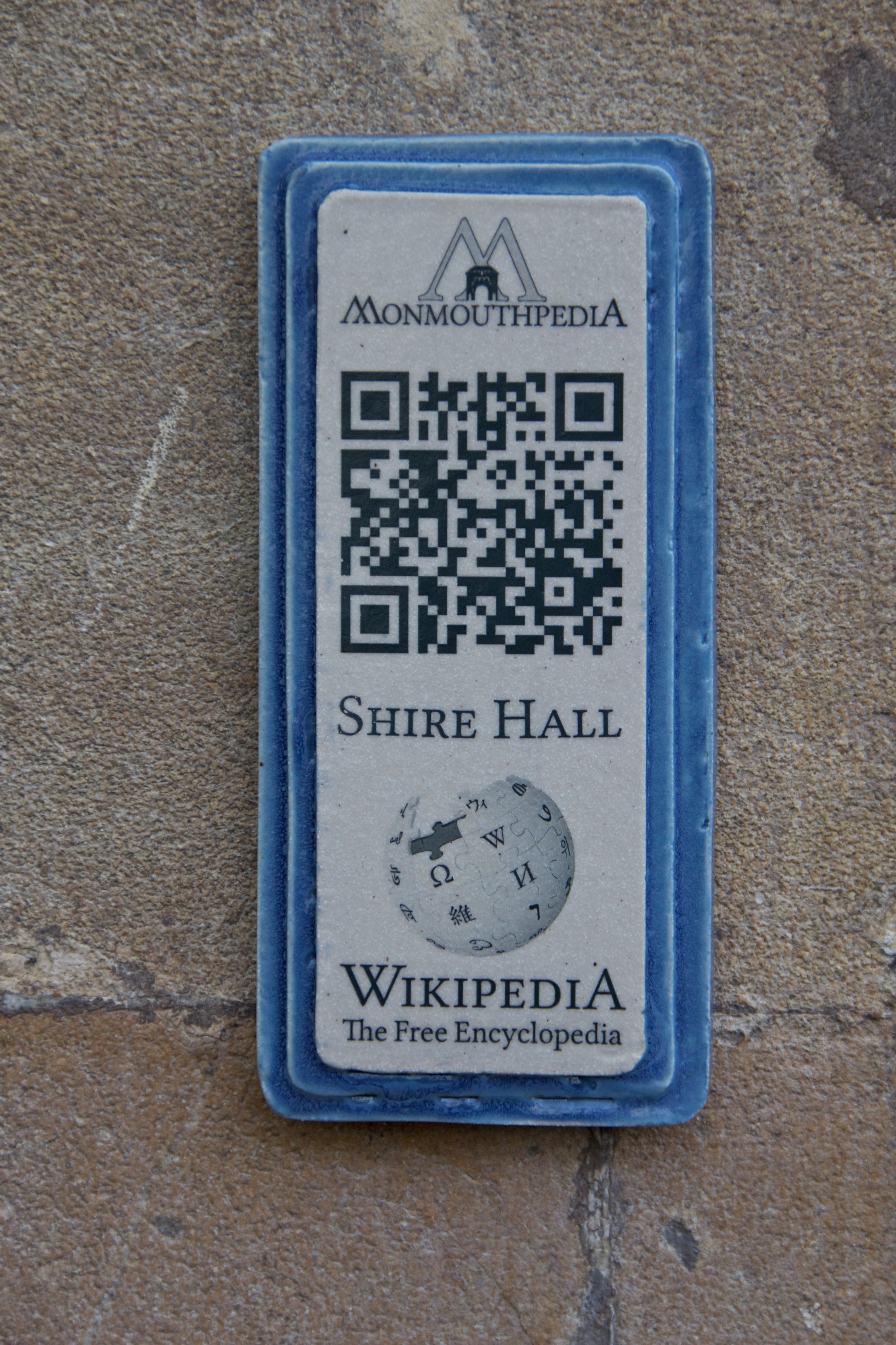 The Shire Hall QRpedia plaque, Monmouth, for Monmouthpedia.